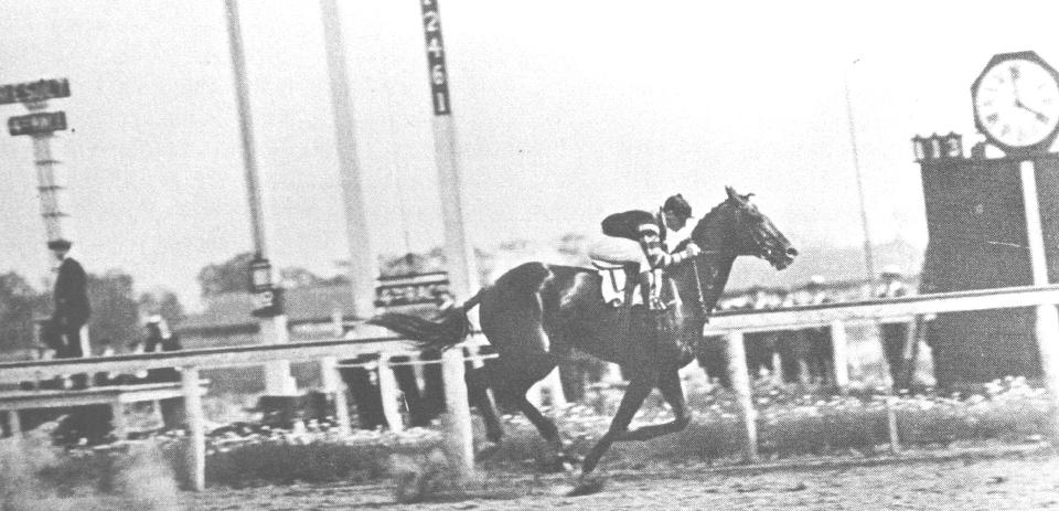 Man o War - Stuyvesent Handicap June 22, 1920, original photographer: CC Cook Photo taken by CC Cook (Charles Christian Cook) - famous racehorse photographer of the early and mid-1900's. Cropped versions of this photo circulate on Internet sites. I obtained my copy from Wide World Photos (AP) in NYC about 1980. I believe the photo is now generally in the public domain. This photo shows Man O' War in his stretch run of the Stuyvesant Handicap at the old Jamaica racetrack in Queens, New York on June 22, 1920. Man O' War carried 135 pounds in this one-mile race, spotted the second place horse 32 pounds, and won by an estimated eight to ten lengths in a canter.